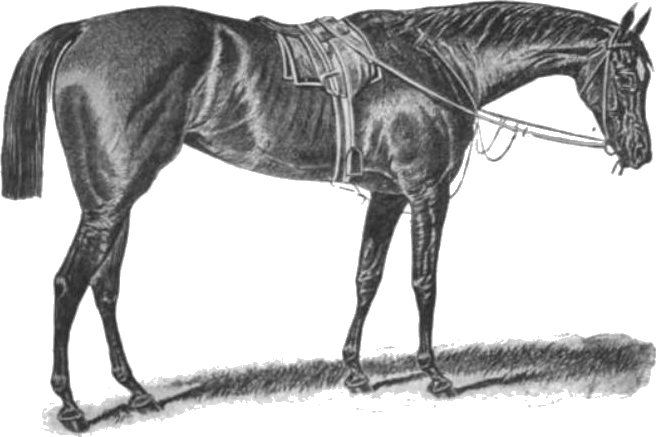 Drawing of mare Apology, the winner of the 1874 British Triple Crown.